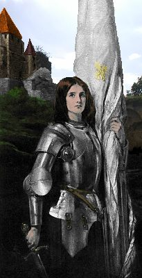 Portrait of Joan of Arc